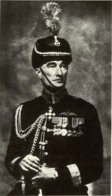 The RAAF's third most senior officer, Air Commodore W.H. Anderson, shown in the full dress uniform adopted directly from the RAF pattern. These uniforms were introduced into the RAAF only in 1938-39 and few officers acquired them before the outbreak of war.